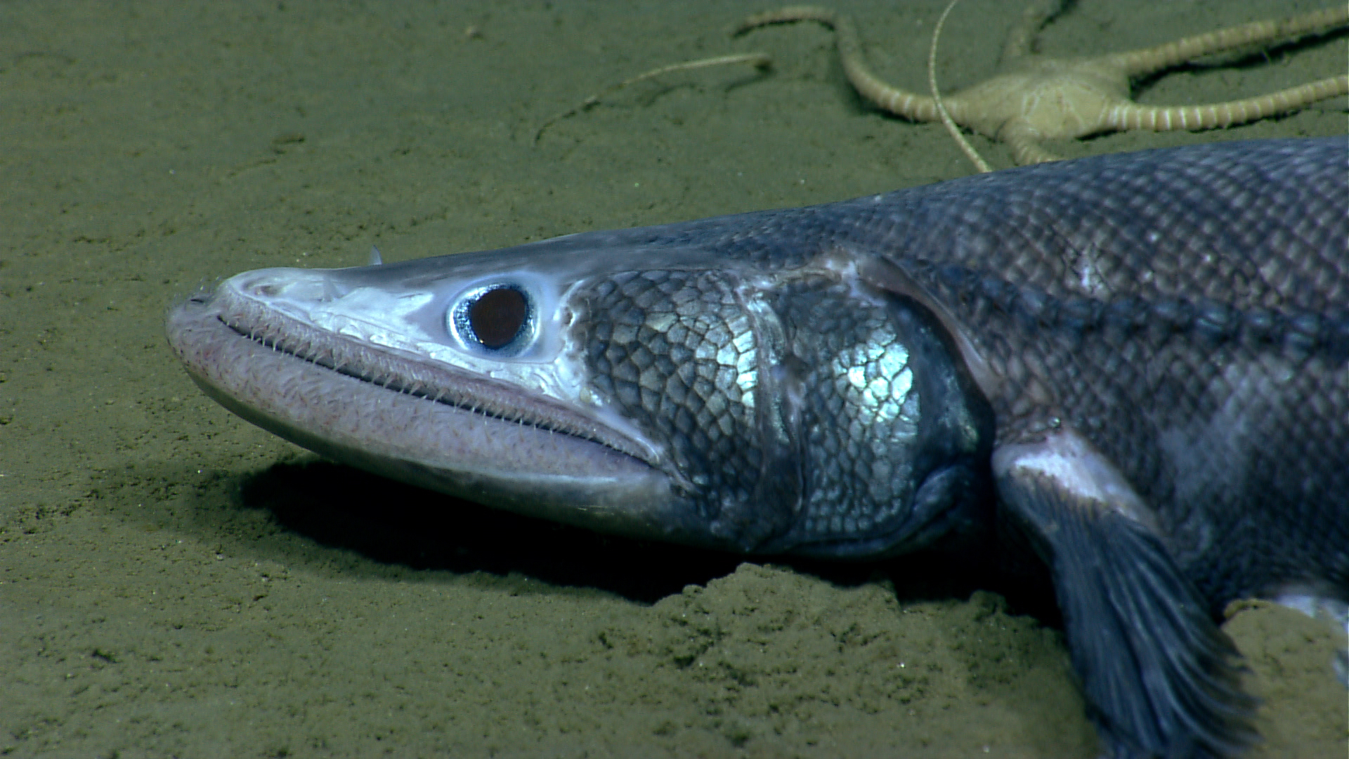 Deep sea fish. A bathysaurus. These fish use their lower jaw to scoop in the sand. Image ID: expl9673, Voyage To Inner Space - Exploring the Seas With NOAA Collect Location: Veatch Canyon, center to west side 2108-1969m Photo Date: 20130720T162741Z Credit: NOAA OKEANOS Explorer Program , 2013 Northeast U. S. Canyons Expedition